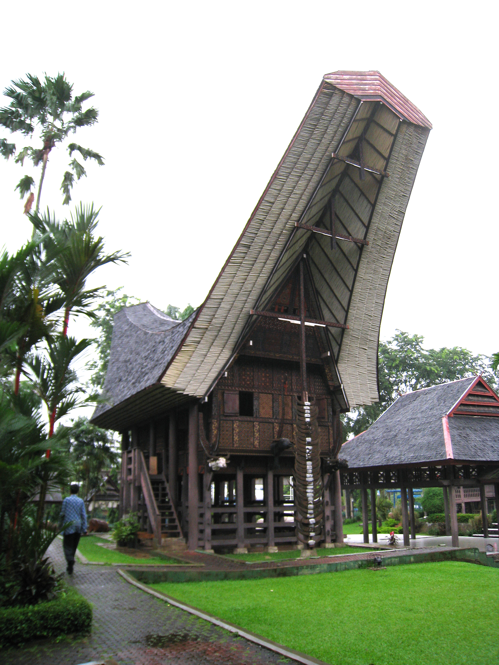 The traditional Toraja house at South Sulawesi Pavilion, Taman Mini Indonesia Indah, Jakarta.